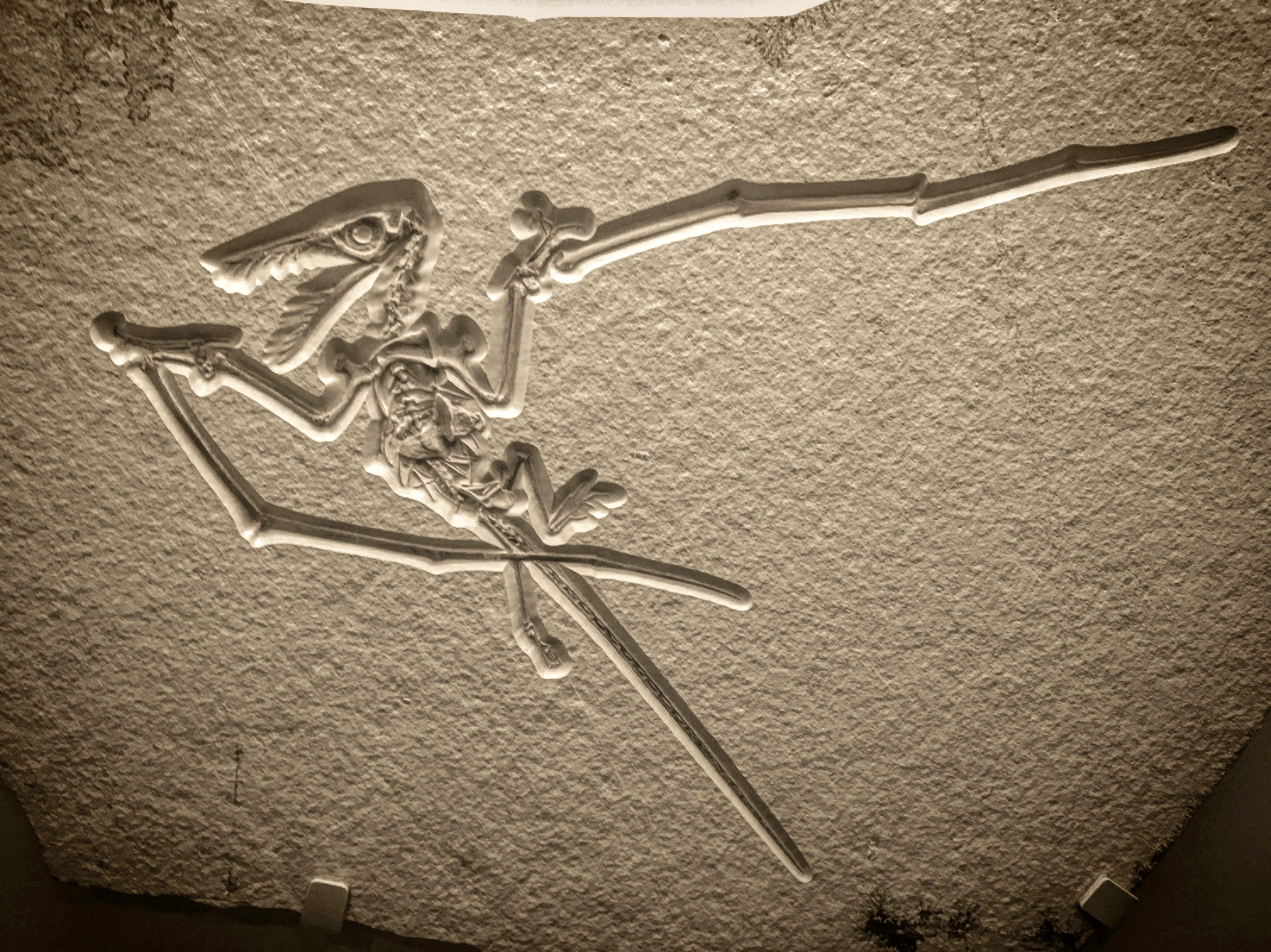 Perserved fossil of rhamphorhynchus, on display at the Field Museum of Natural History, Chicago, Illinois, 2018. Specimen is on the loan to the museum from the Lauer Foundation for Paleontology.